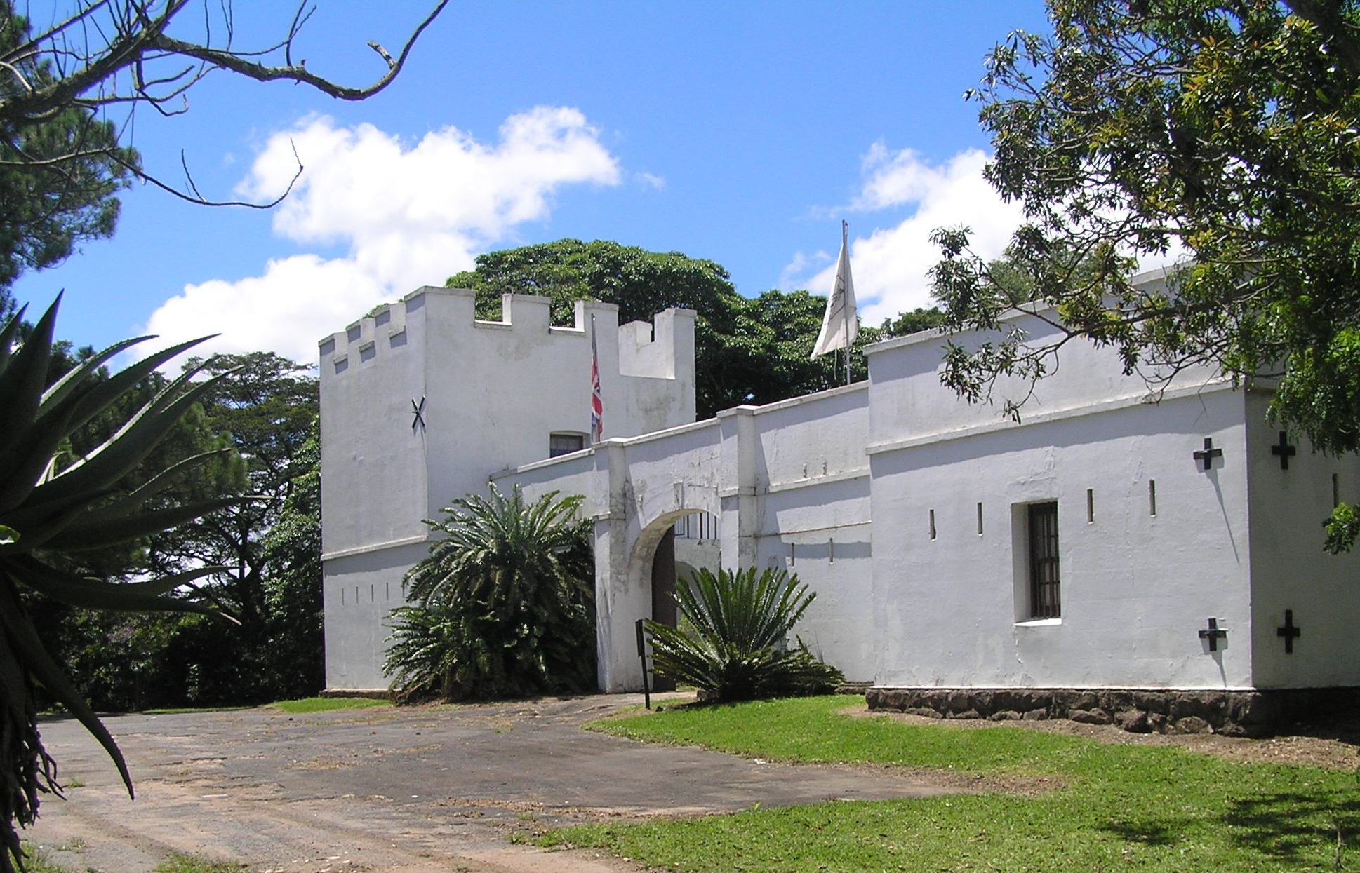 External view of Fort Nongqayi